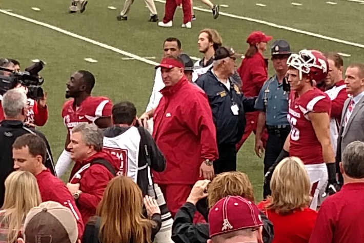 Bret Bielema leaves the field after a win over Auburn